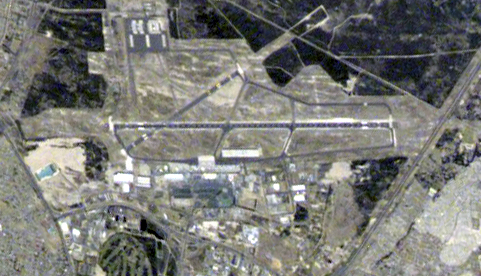 Image courtesy of Earth Sciences and Image Analysis Laboratory, NASA Johnson Space Center. [1].